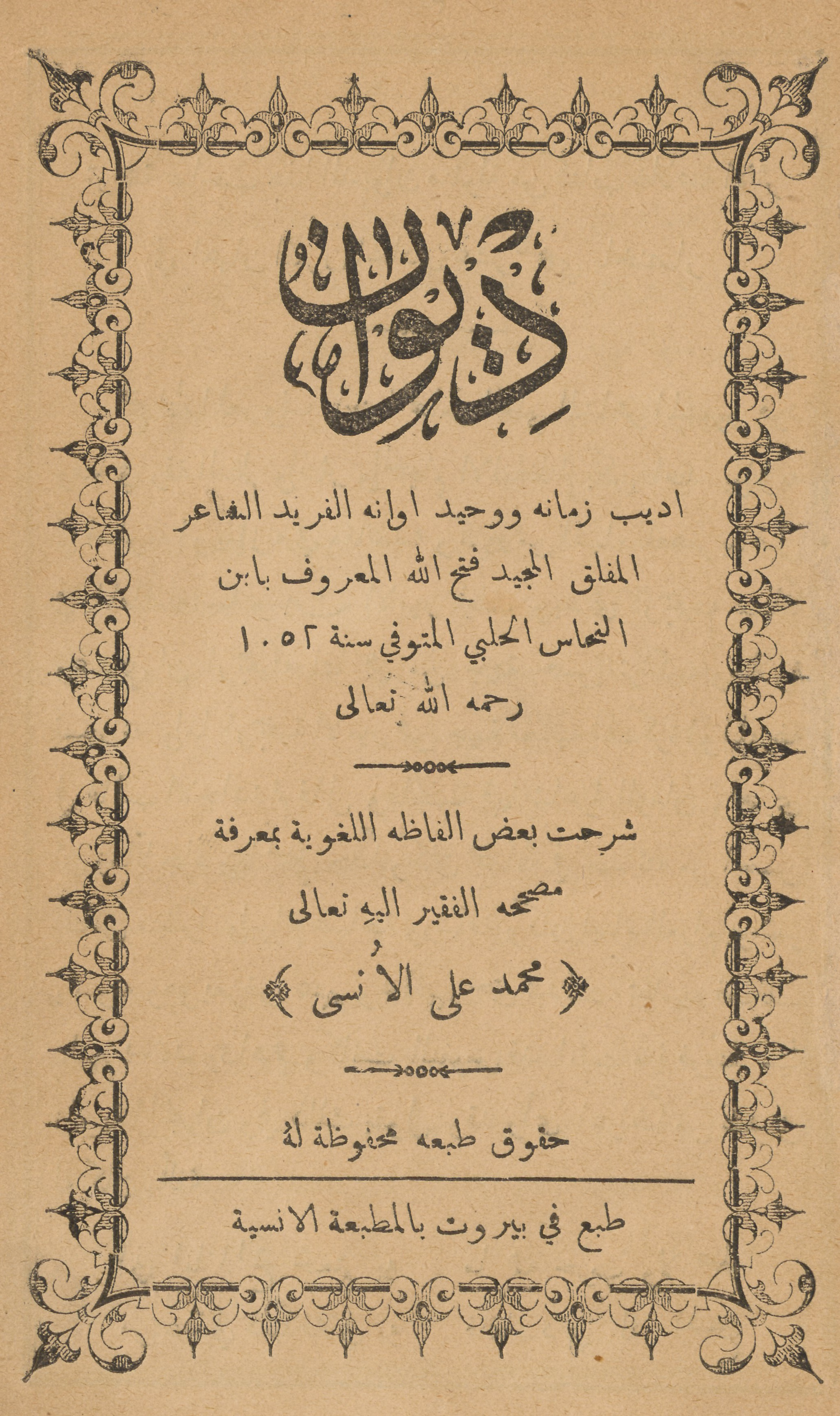 Cover page of Diwan Ibn al-Nahhas al-Halabi, 1893, Beirut